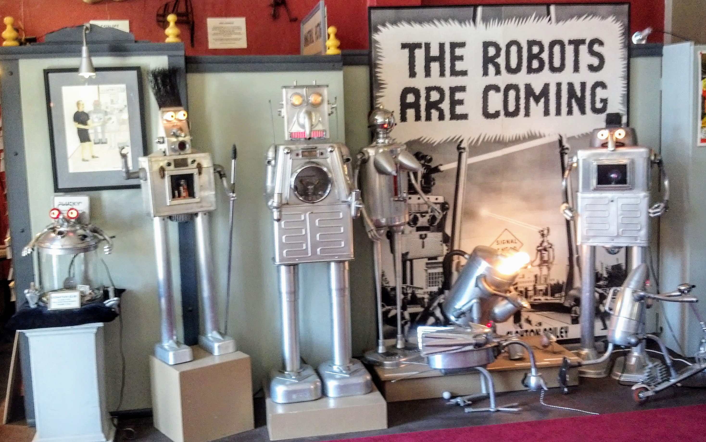 An exhibit at the Clayton Bailey Museum in Crockett, California. Photo by Jim Heaphy.